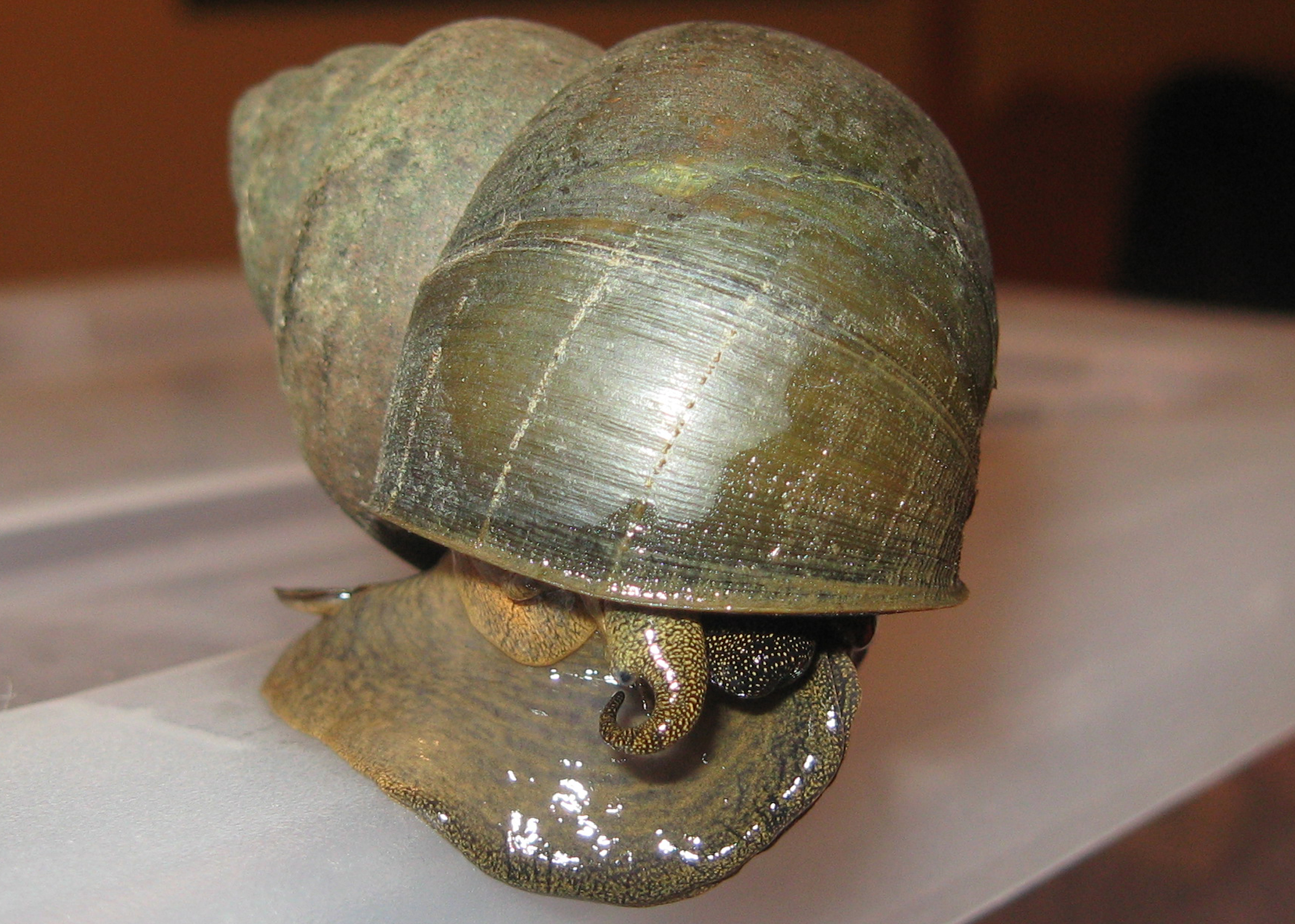 Photo of Bellamya chinensis. Chinese mystery snails are prohibited in Oregon. They can obstruct intake pipe screens and restrict water flow; they can host parasites and diseases known to infect humans, and they compete with Oregon’s native snails for food and habitat resources. Native to southeast Asia.